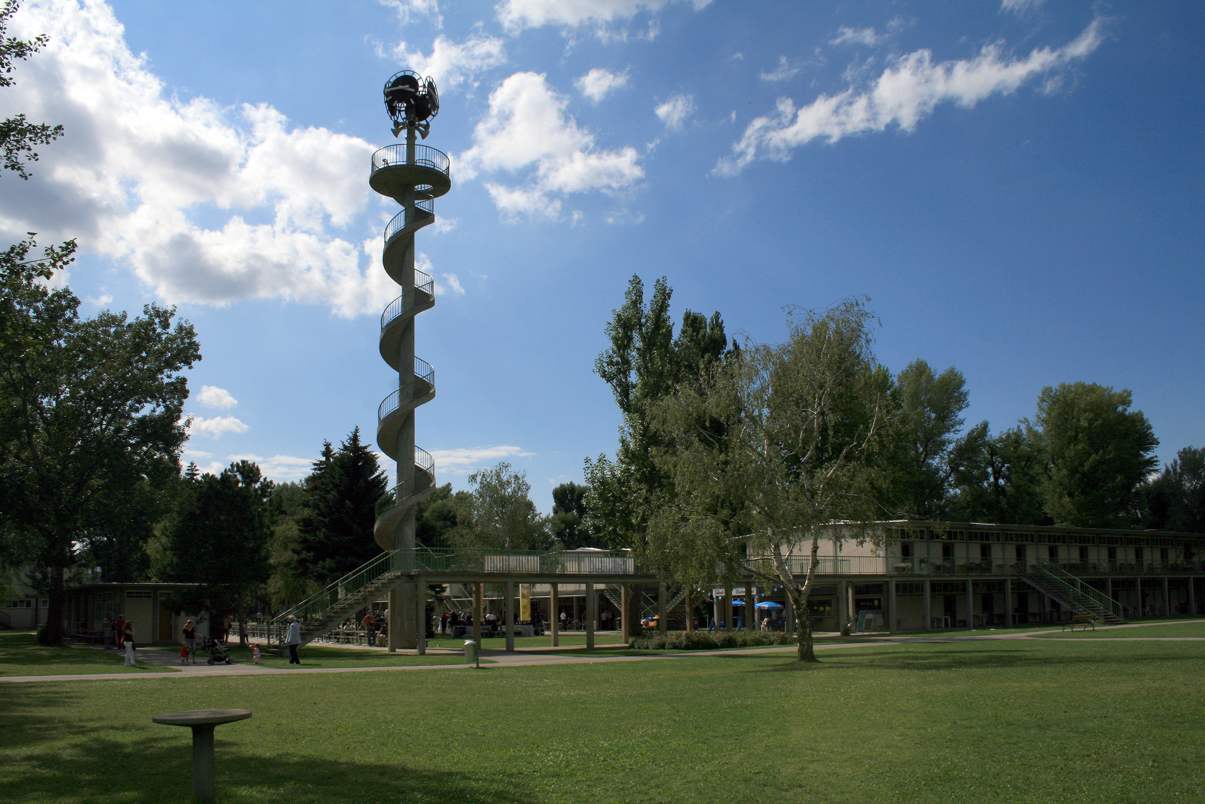 Strandbad Gänsehäufel in Vienna